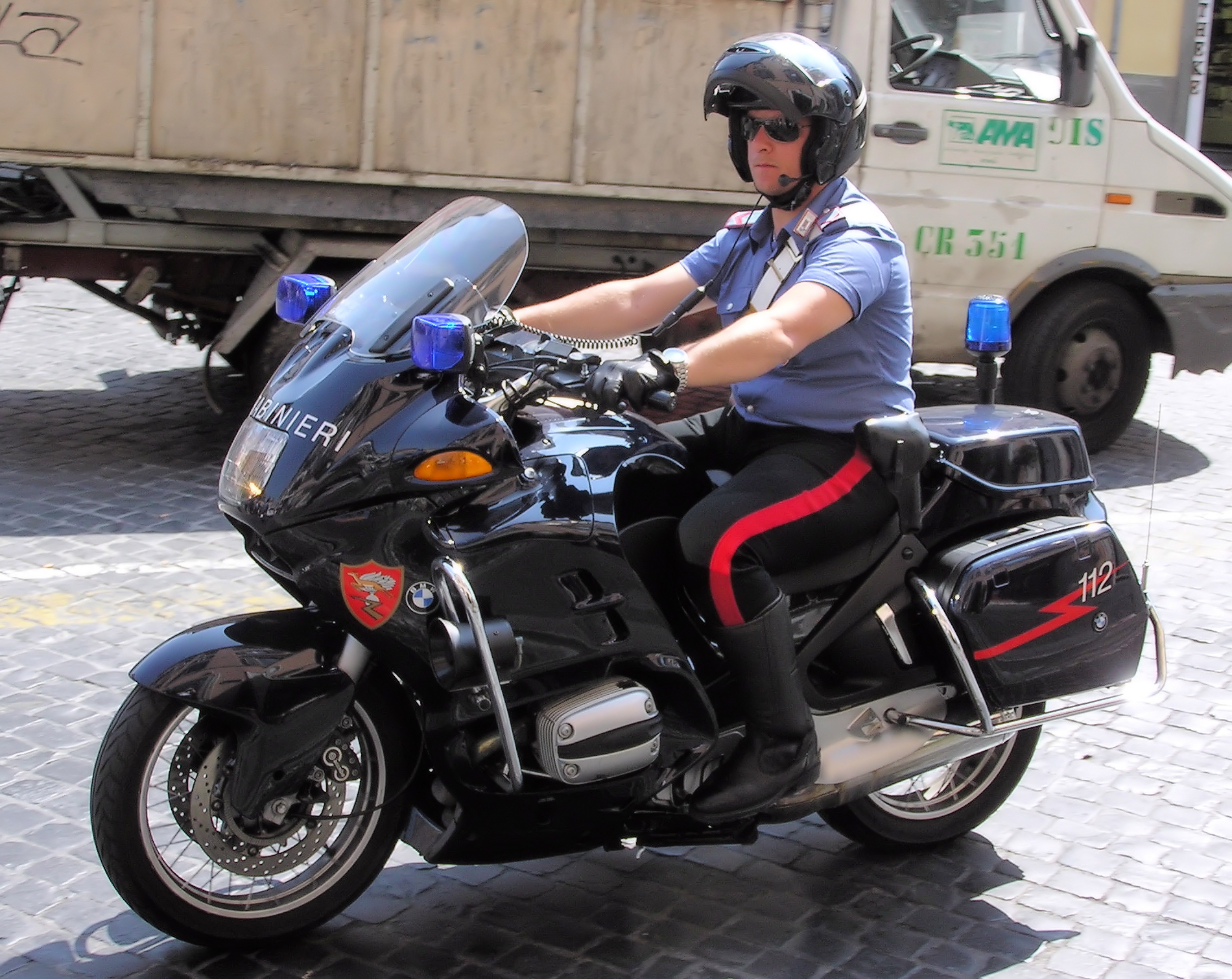 Carabinieri motorcycle in central Rome, Italy.